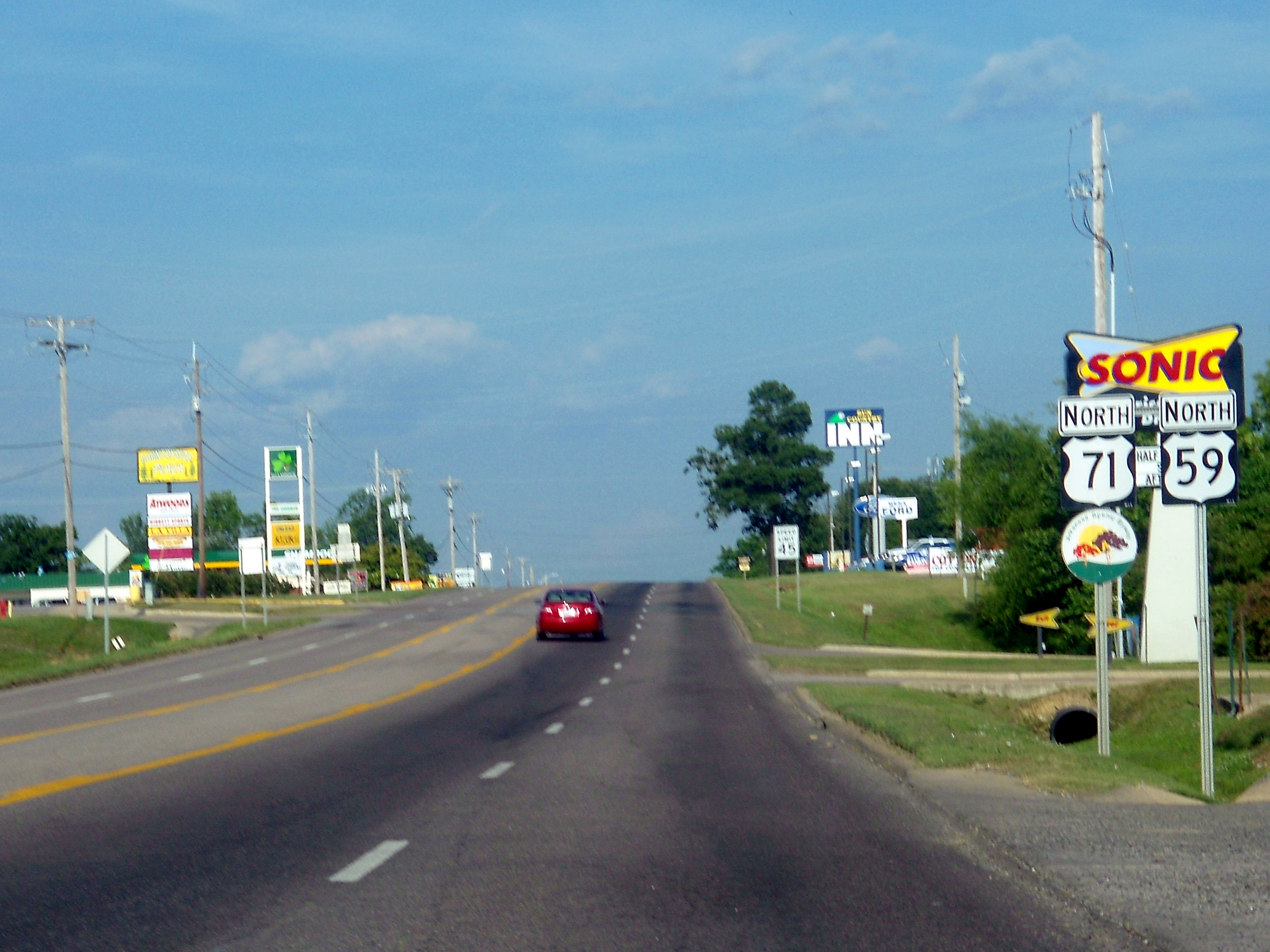 US 59/US 71 run together in Mena, Arkansas. Just south of the end of the Highway 8 overlap. This route is also designated the West-Northwest Scenic Byway, which is an Arkansas Scenic Byway.